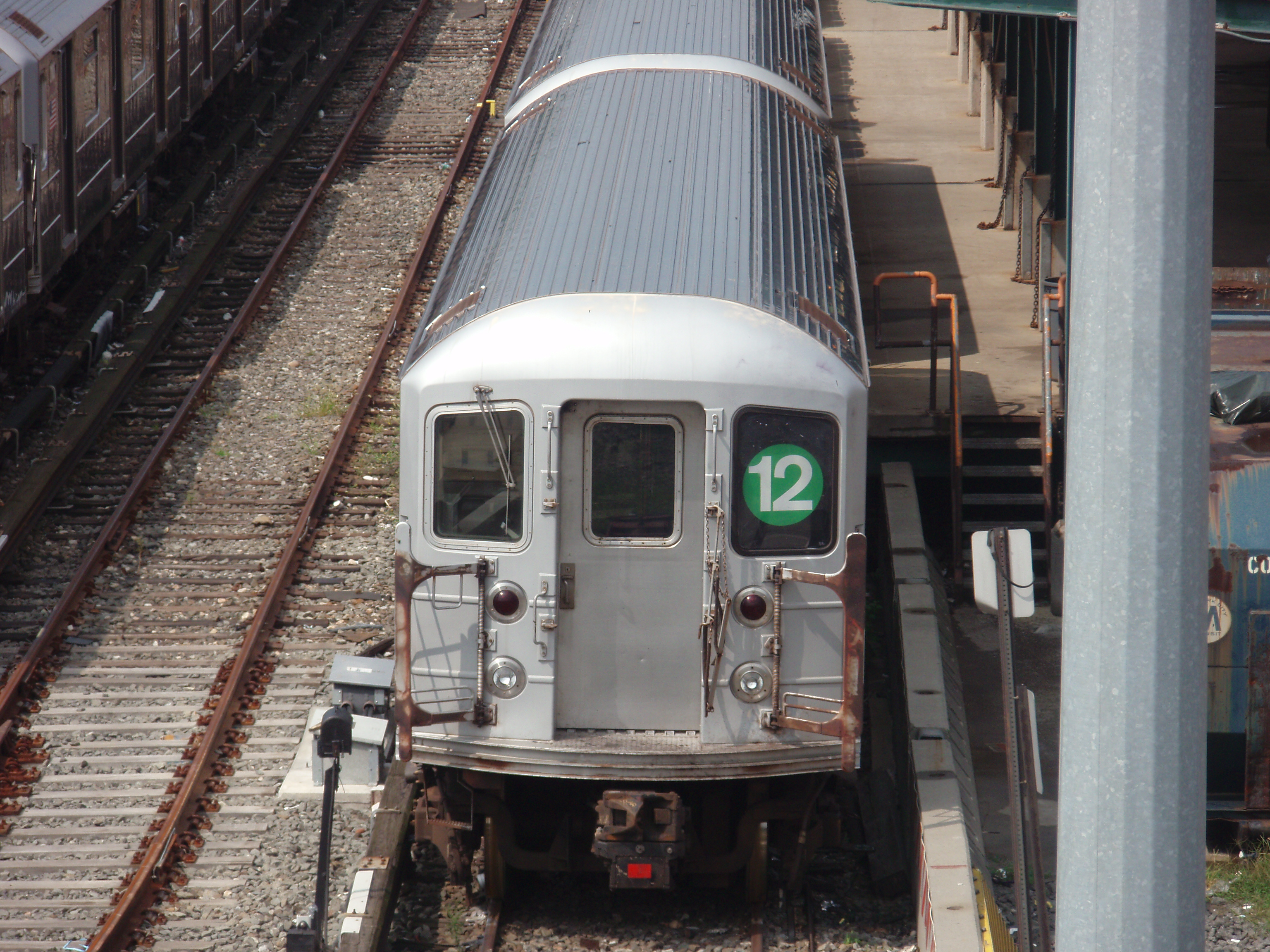 An R62A subway car showing a 12 sign